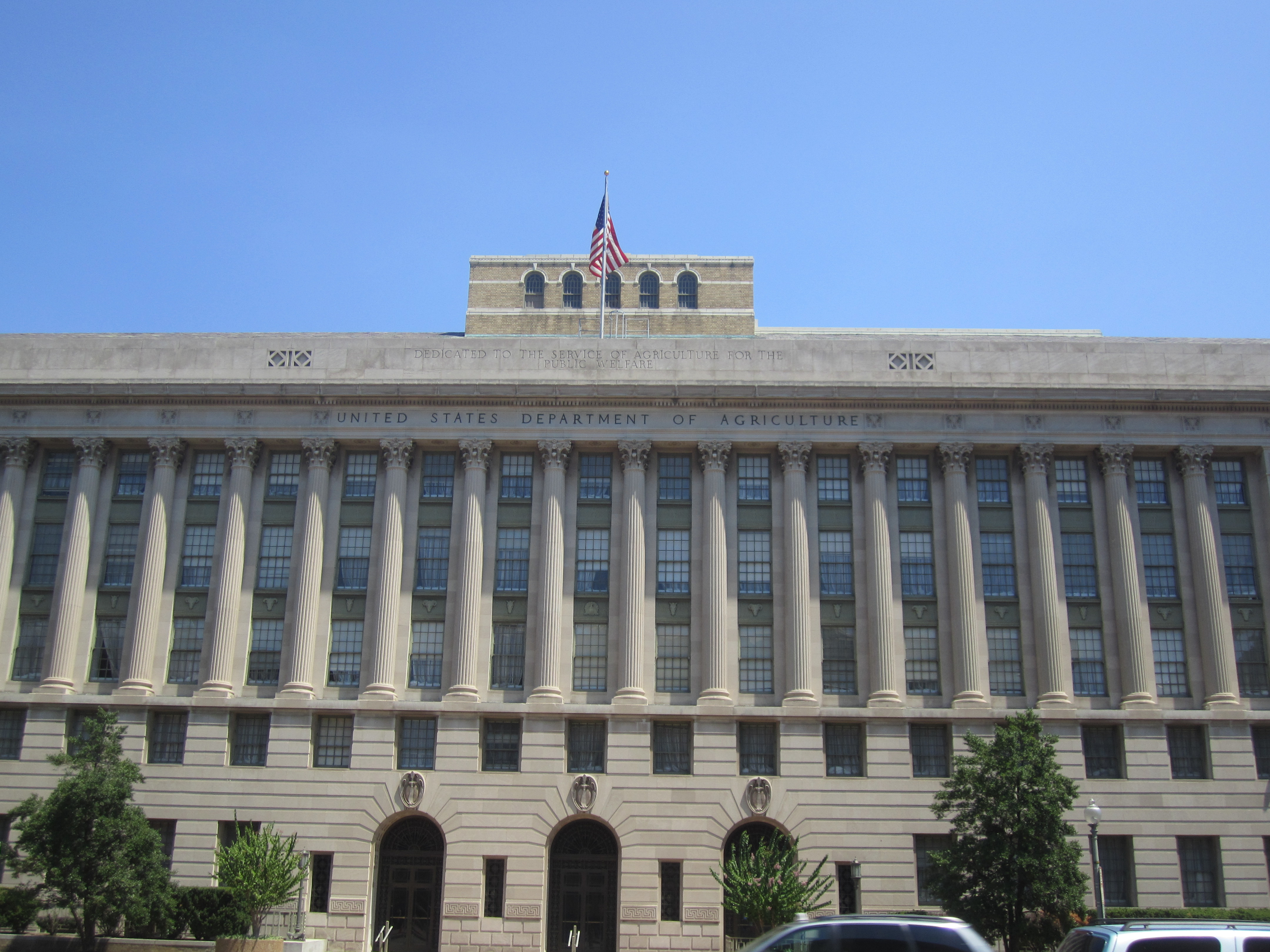 I took photo with Canon camera of USDA building in Washington, D.C.